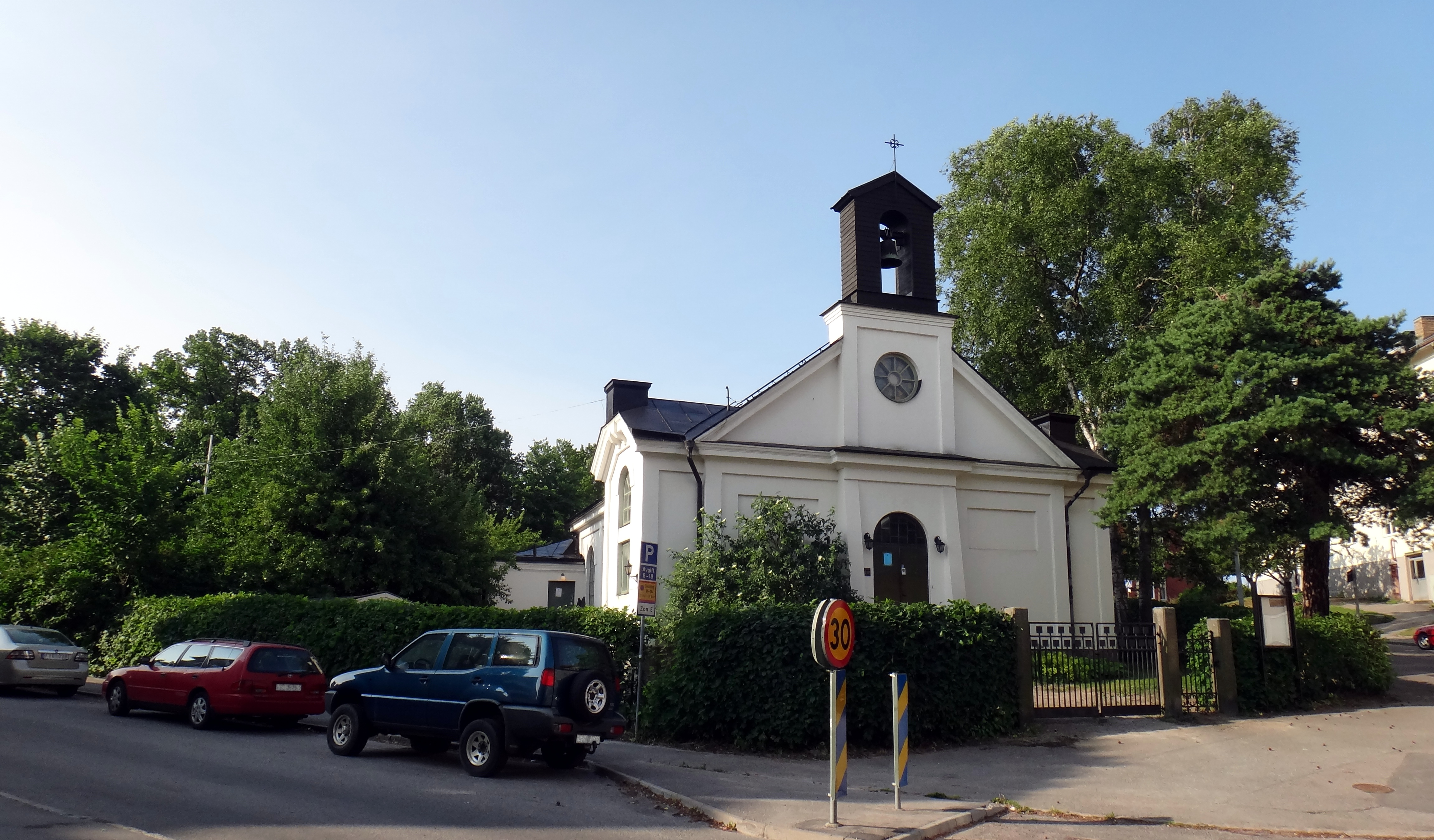 The church Alby kyrka in Lilla Alby, Sundbyberg, Sweden.